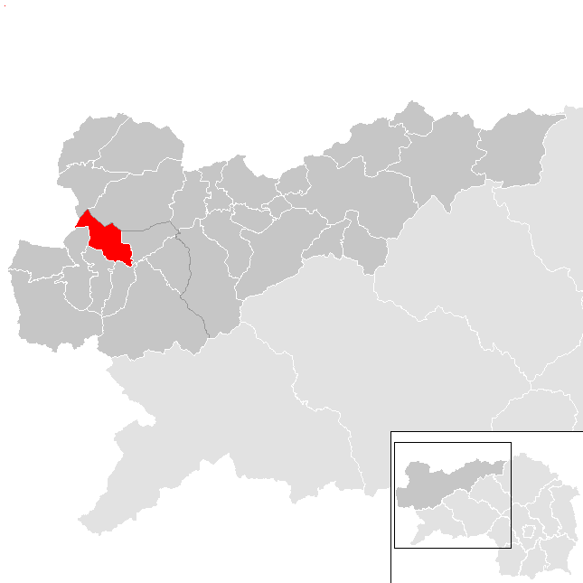 District Leoben